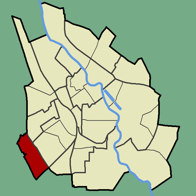 Locator map of Ränilinn, Tartu, Estonia.